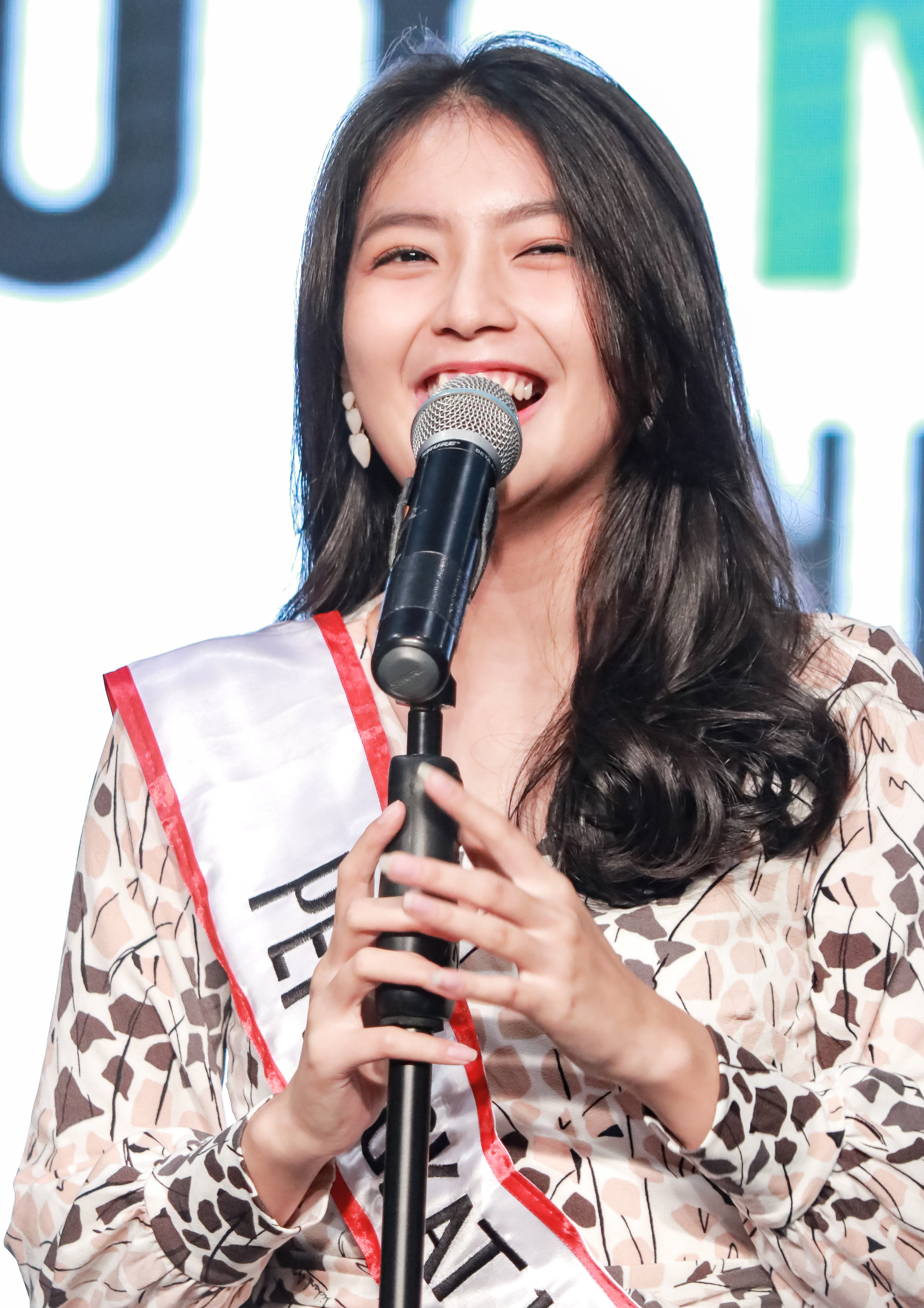 Shania Gracia on 21 December 2019